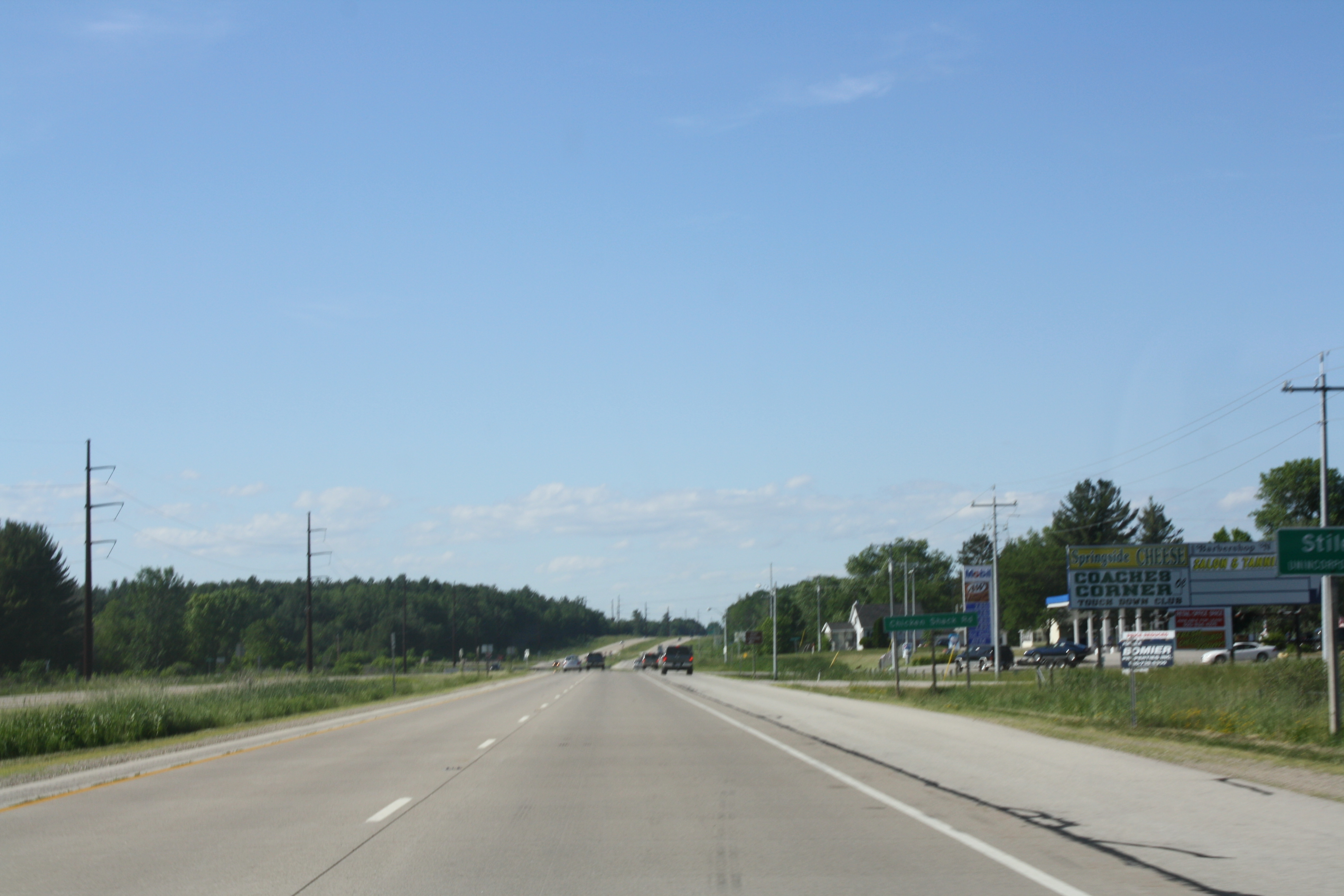 Looking north at Stiles (community), Wisconsin along U.S. Route 141.